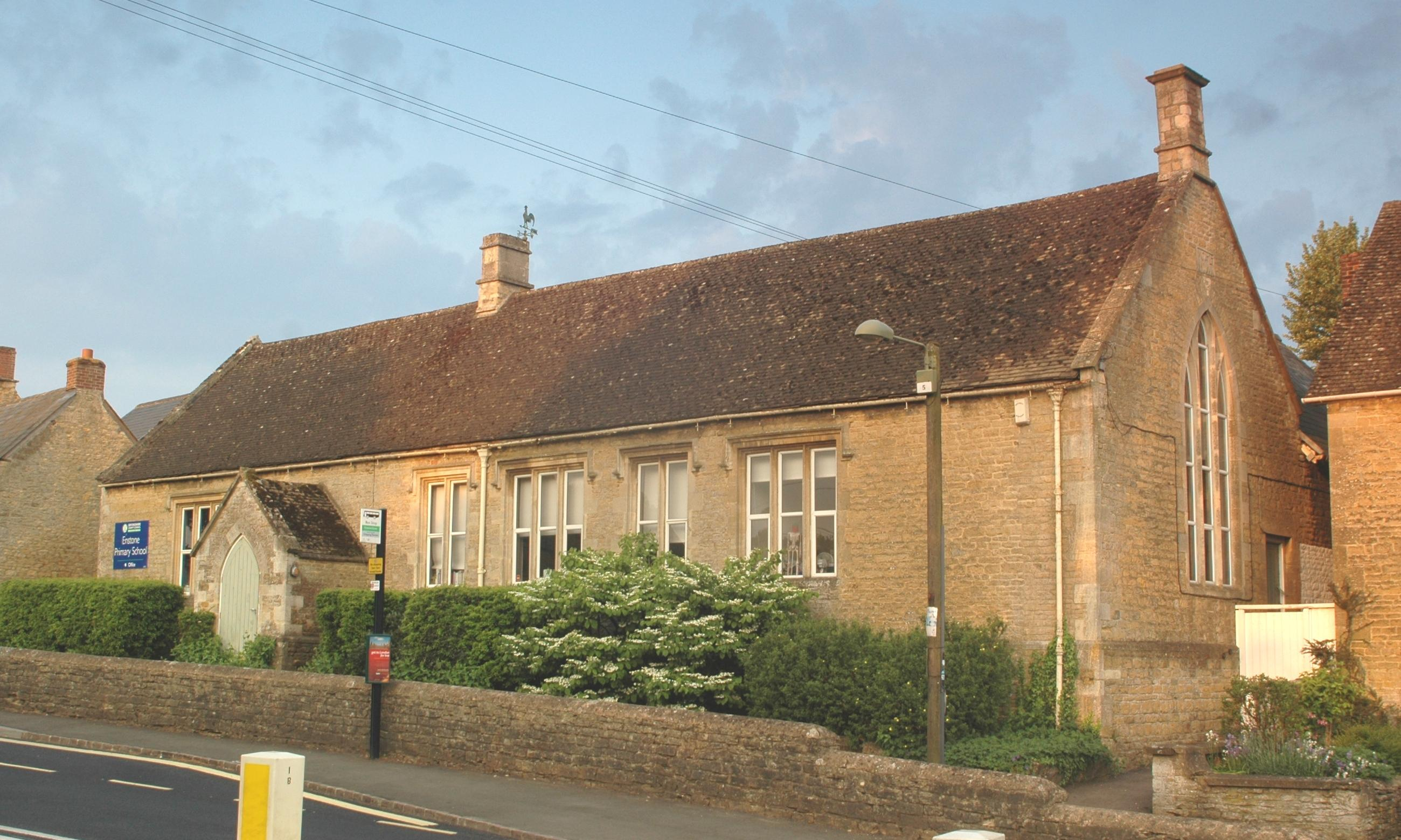 County Primary School at Neat Enstone, Oxfordshire, built in 1875